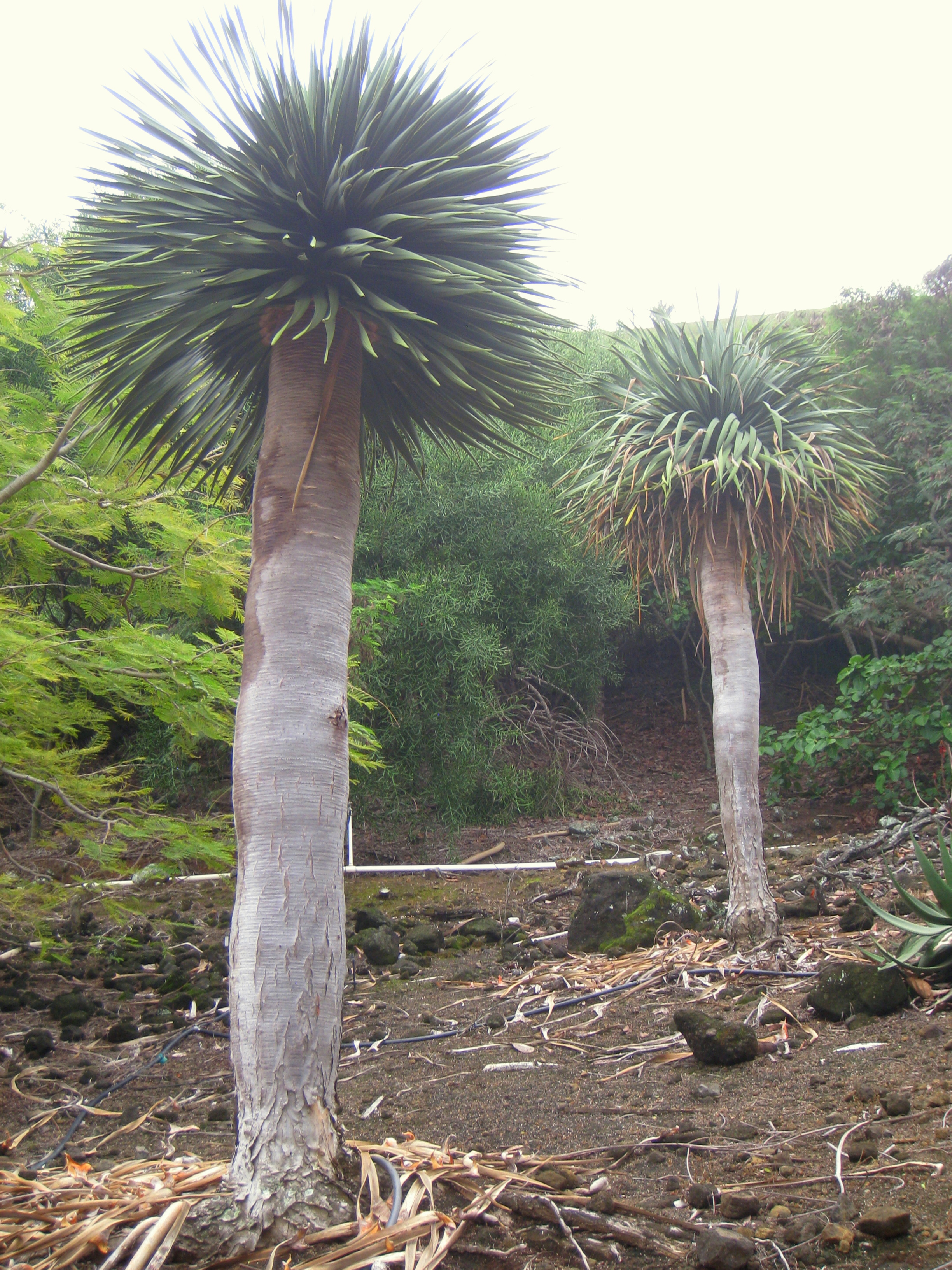 Dracaena cinnabari (Dragon's Blood Tree) — endemic to Socotra island, Yemen. In the Koko Crater Botanical Garden, Honolulu, Hawaii.